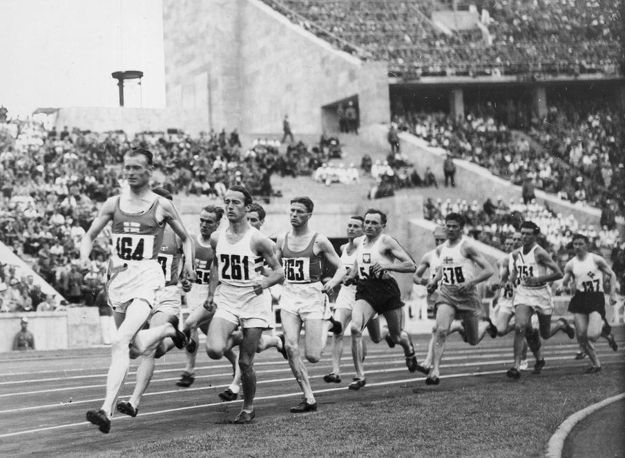 Berlin 1936 5000 m Józef Noji, Gunnar Hockert, Ilmari Salminen.